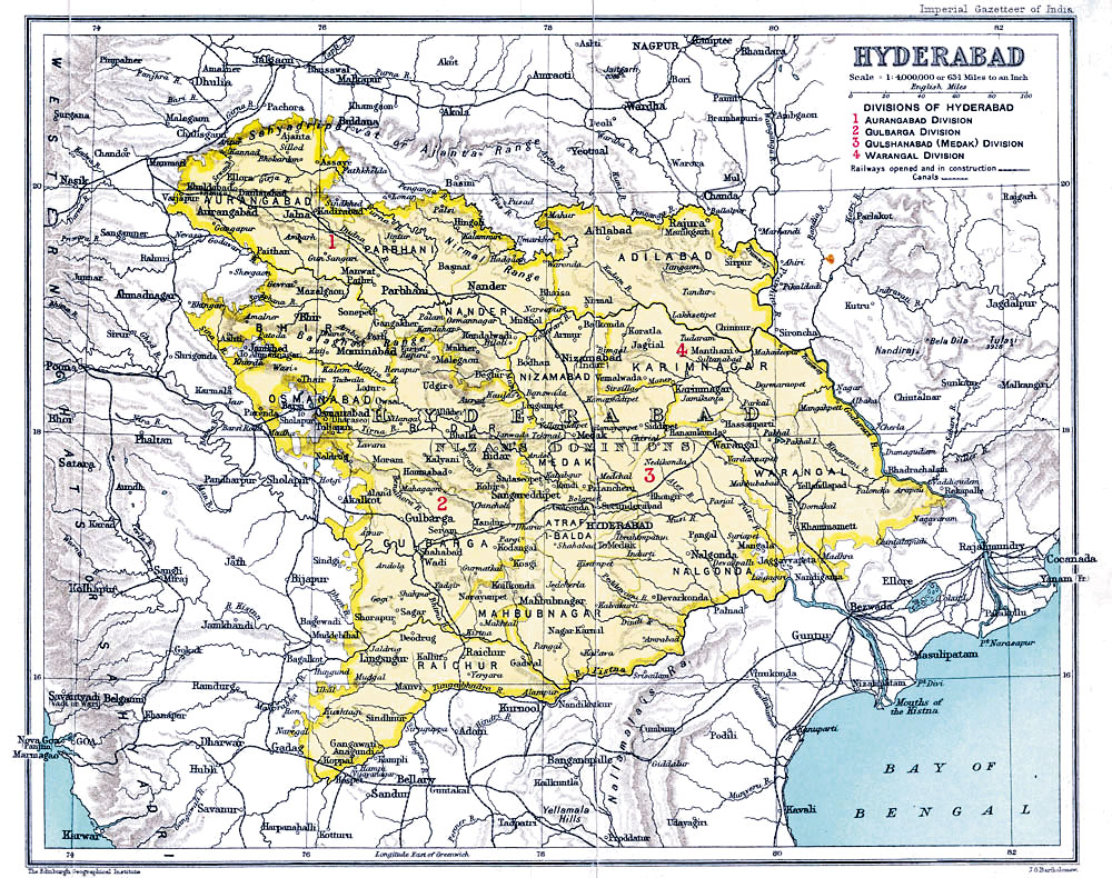 Hyderabad state of British India map by the Imperial Gazetteer of India, 1909. This is a photoshopped version of the original file.